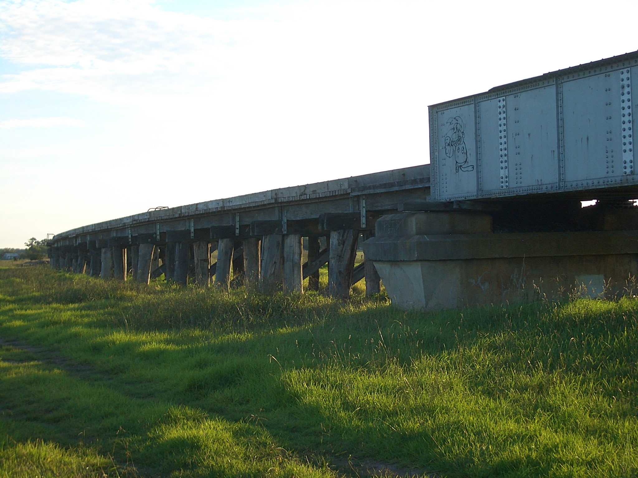 Railway bridge across the Avon River near Stratford, Victoria